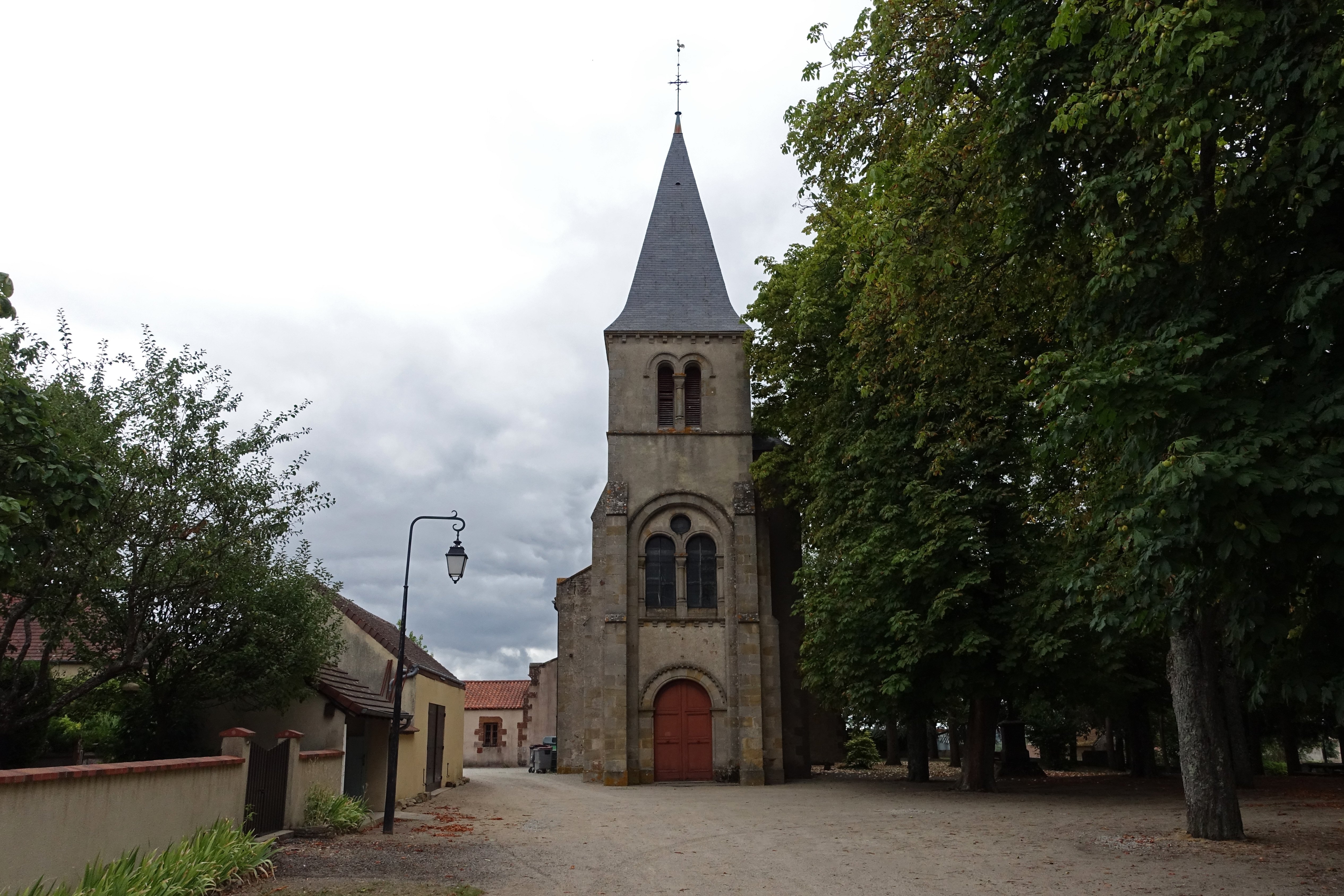 Saint Pierre church in Montilly, Allier